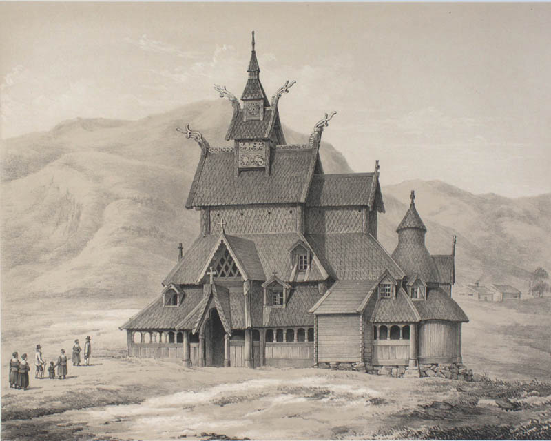 Picture from the work "Norge fremstillet i Tegninger" from 1848 by Christian Tønsberg. The picture depicts Borgund stave church, Norway.